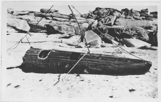 "The float cut in halves that was used as a boat by Bertram and Klaussman."--Typewritten slip affixed to rear of mount. nla.pic-vn4774229